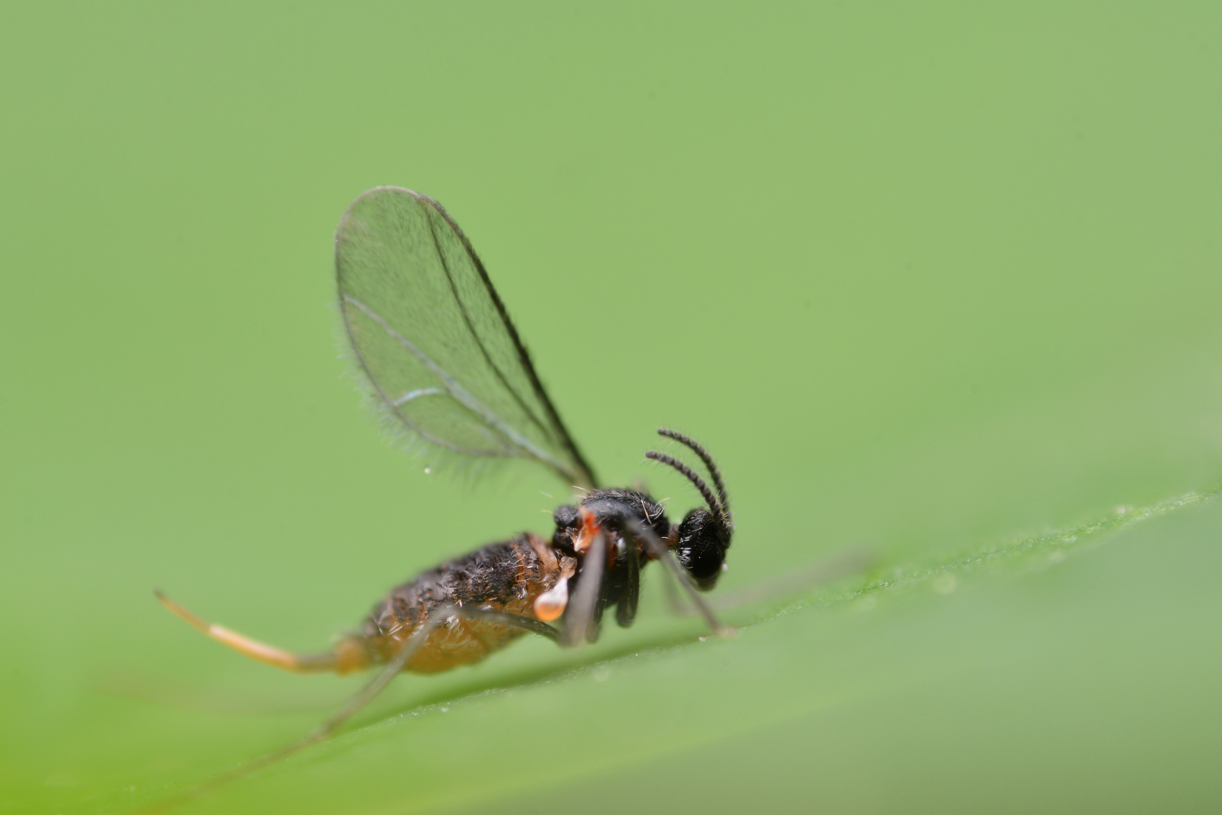 Brassica pod midge - Dasineura brassicae female (Diptera, Cecidomyiidae) with the long ovopositor visible